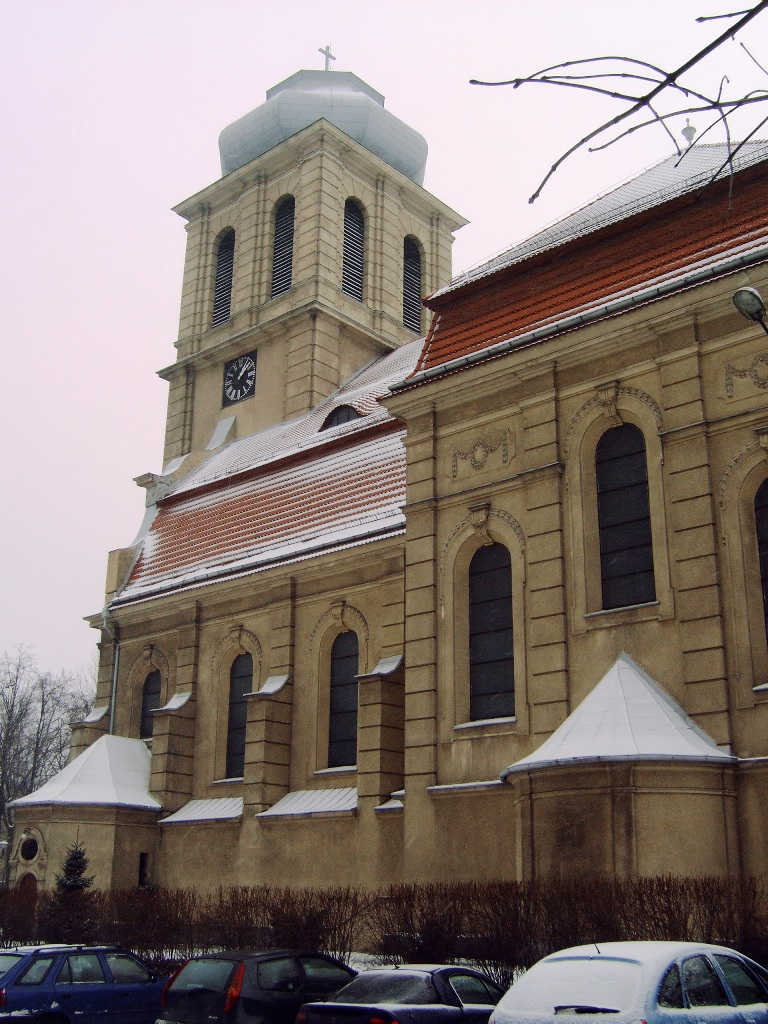 Church in Dąbrówka Mała